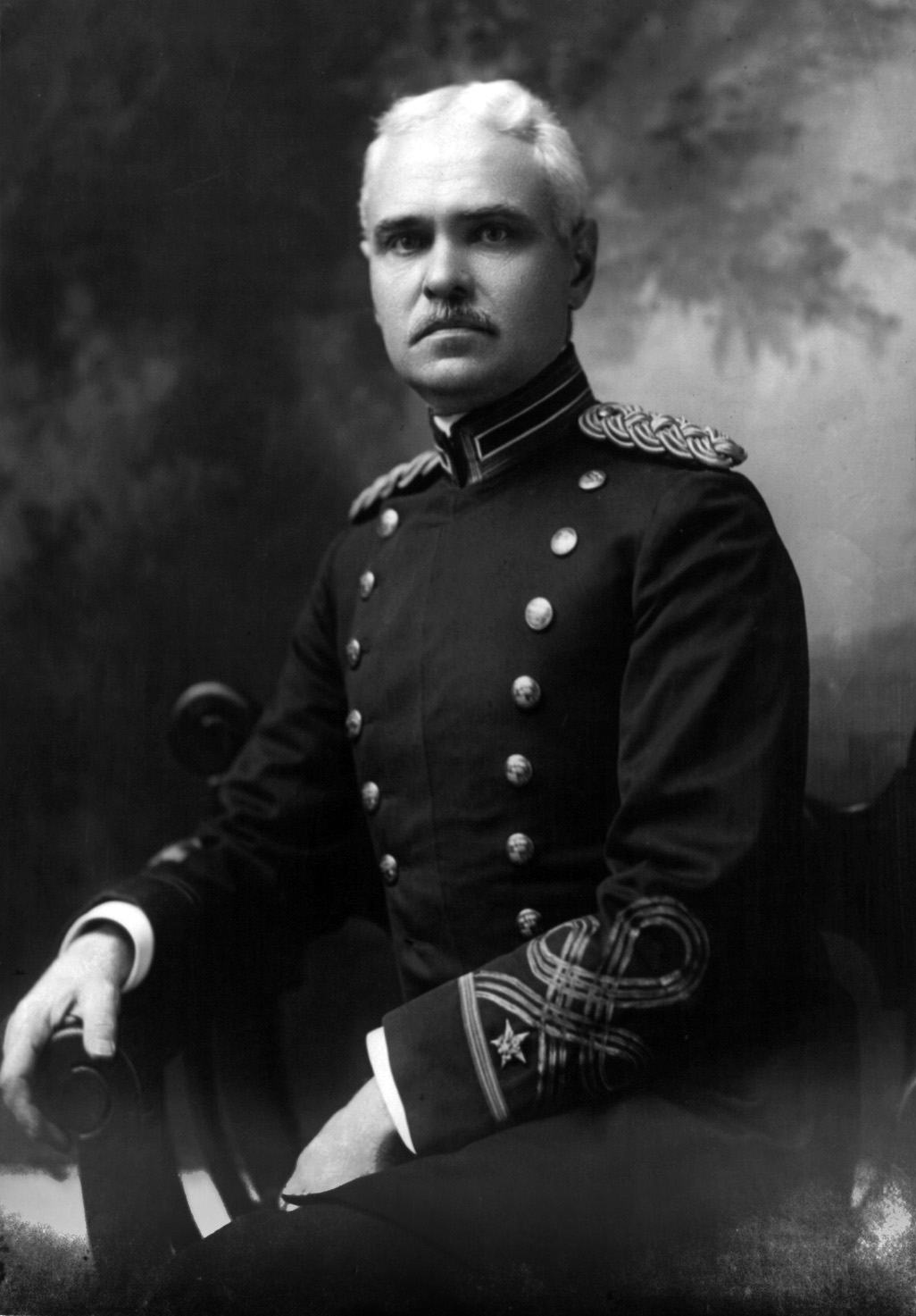 George Washington Goethals, supervised the construction of the Panama Canal